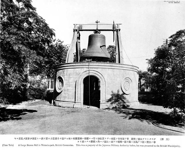 Hai guang temple bell